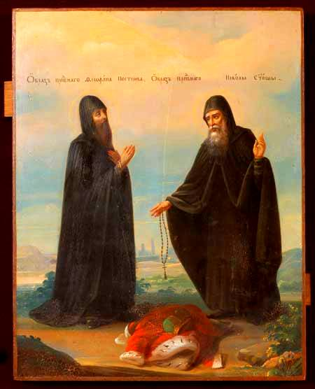 Venerables of Kyiv Caves monastery: Saint Theophanus and Saint Nicholas Sviatosha, 12 century. Orthodox saints. Kyiv, Ukraine.